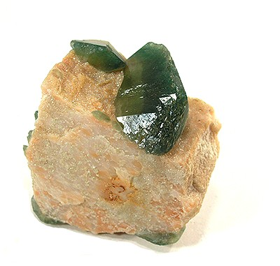 Apatite-(CaF) Locality: Sapo mine, Conselheiro Pena, Doce valley, Minas Gerais, Southeast Region, Brazil (Locality at ) Size: large cabinet, 4.9 x 4.3 x 2.9 cm carbonate-FLUORAPATITE on Feldspar A large 3.5 cm , fat crystal perched seeming precariously on the side face of a feldspar for showing off this odd crystal habit. Excellent, rich color and form!